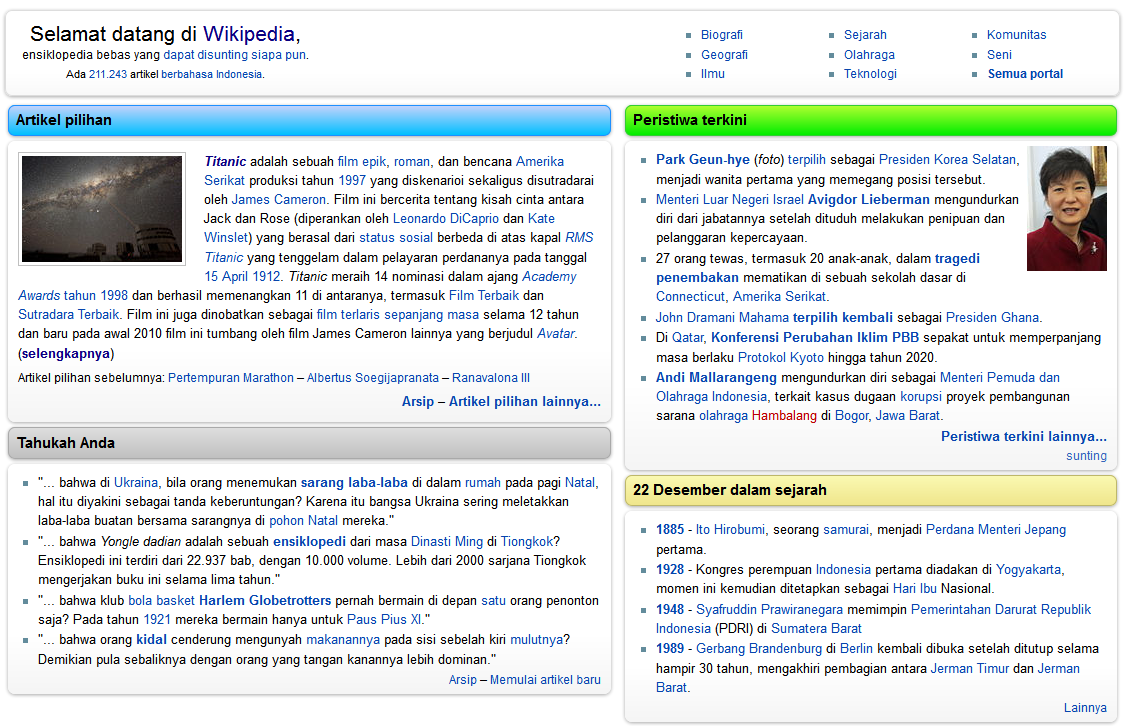 Screenshot of Indonesian Wikipedia at 22 December 2012.